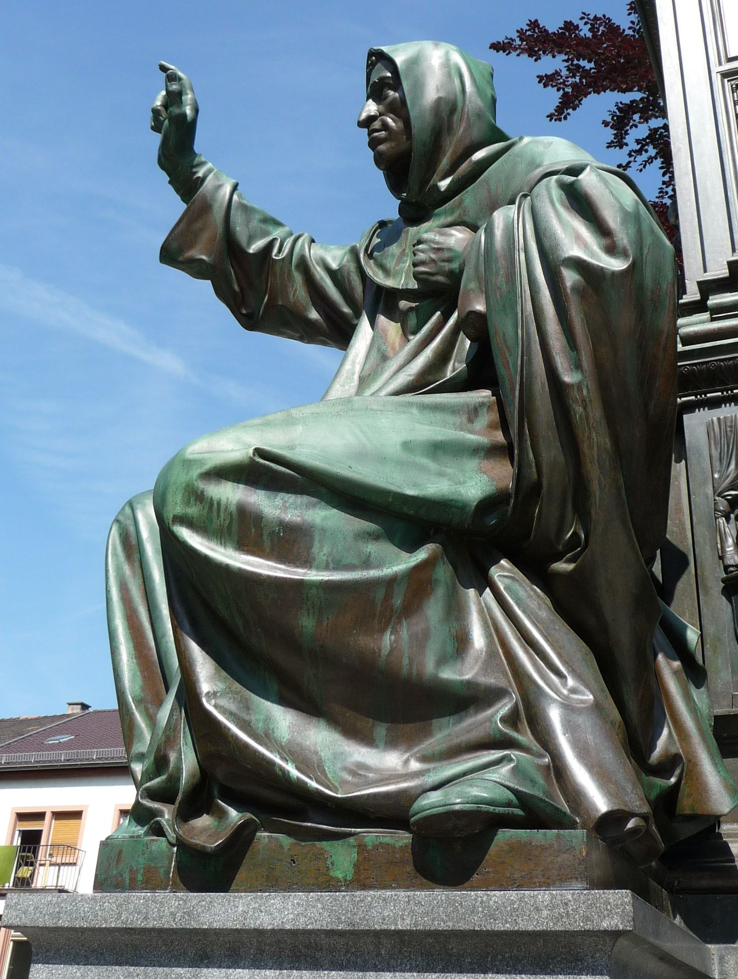 Lutherdenkmal (Worms): Girolamo Savonarola